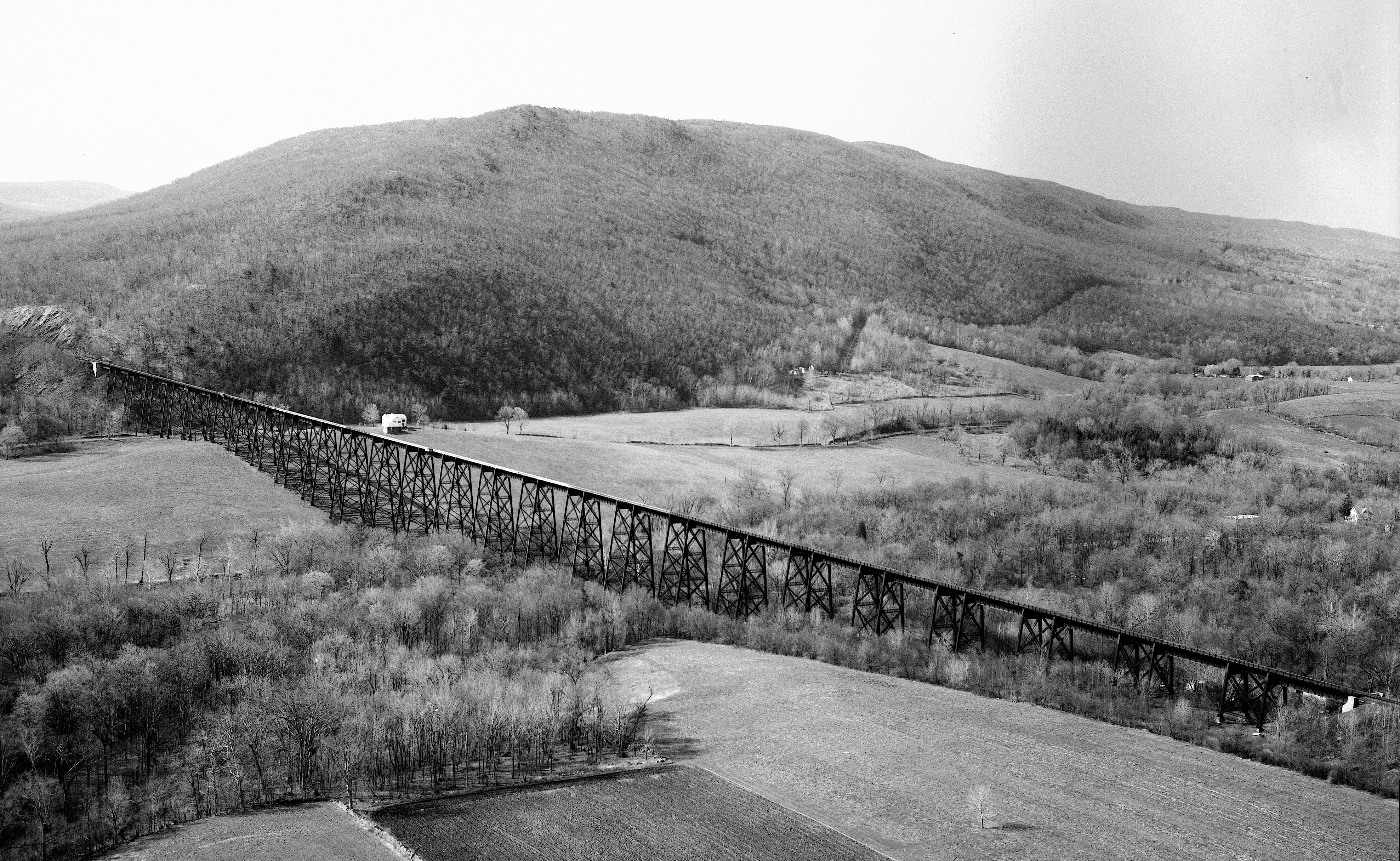 Jack Boucher, photographer, April 1971. GENERAL VIEW OF BRIDGE. - Erie Railway, Moodna Creek Viaduct, Moodna Creek, Orrs Mill Road, Salisbury Mills, Orange County, NY